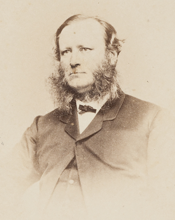 John Whitton, railway engineer, 1867-1870, by Sydney & Melbourne Photographic Company, crop from original carte de visite, State Library of New South Wales P1/1947